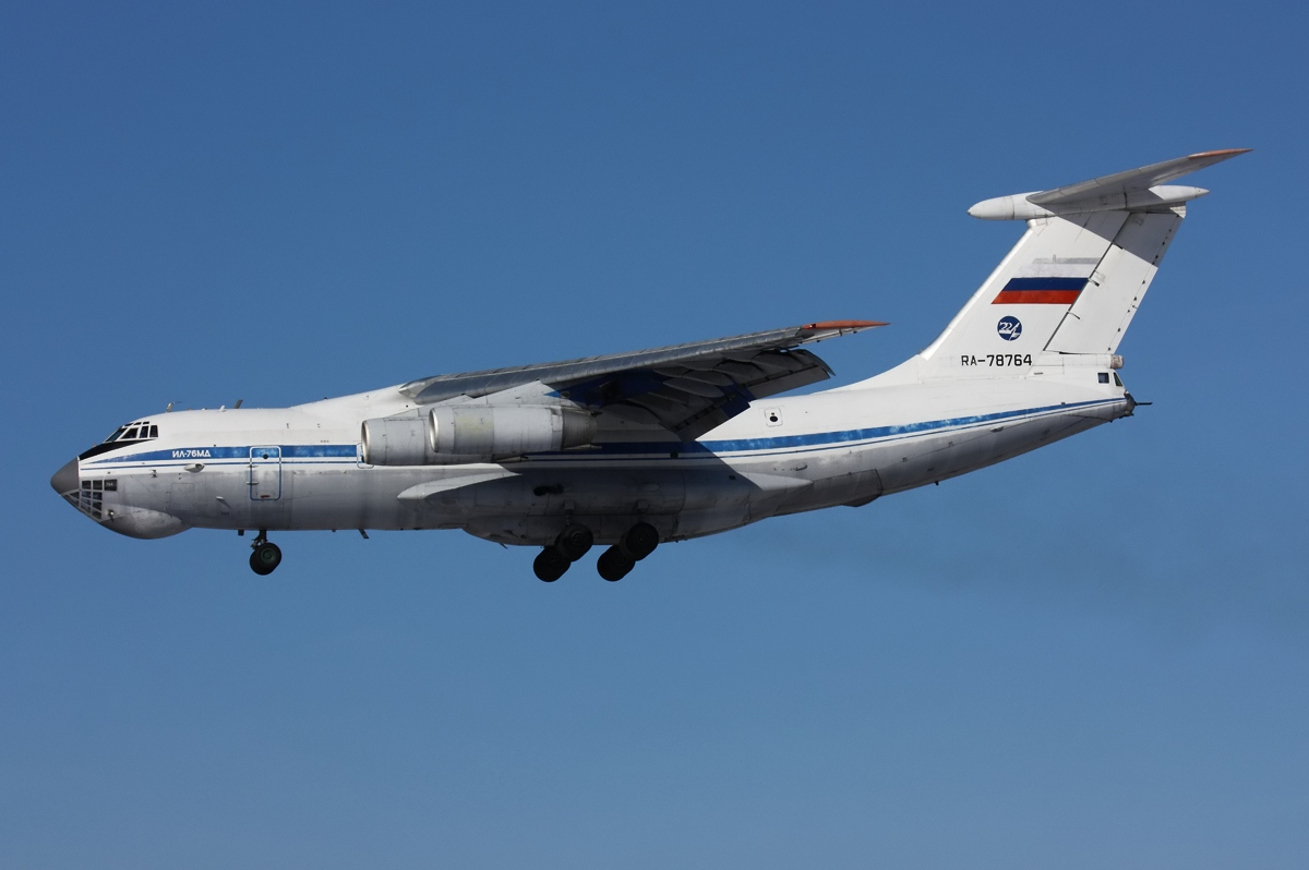 224th Flight Unit Ilyushin Il-76MD